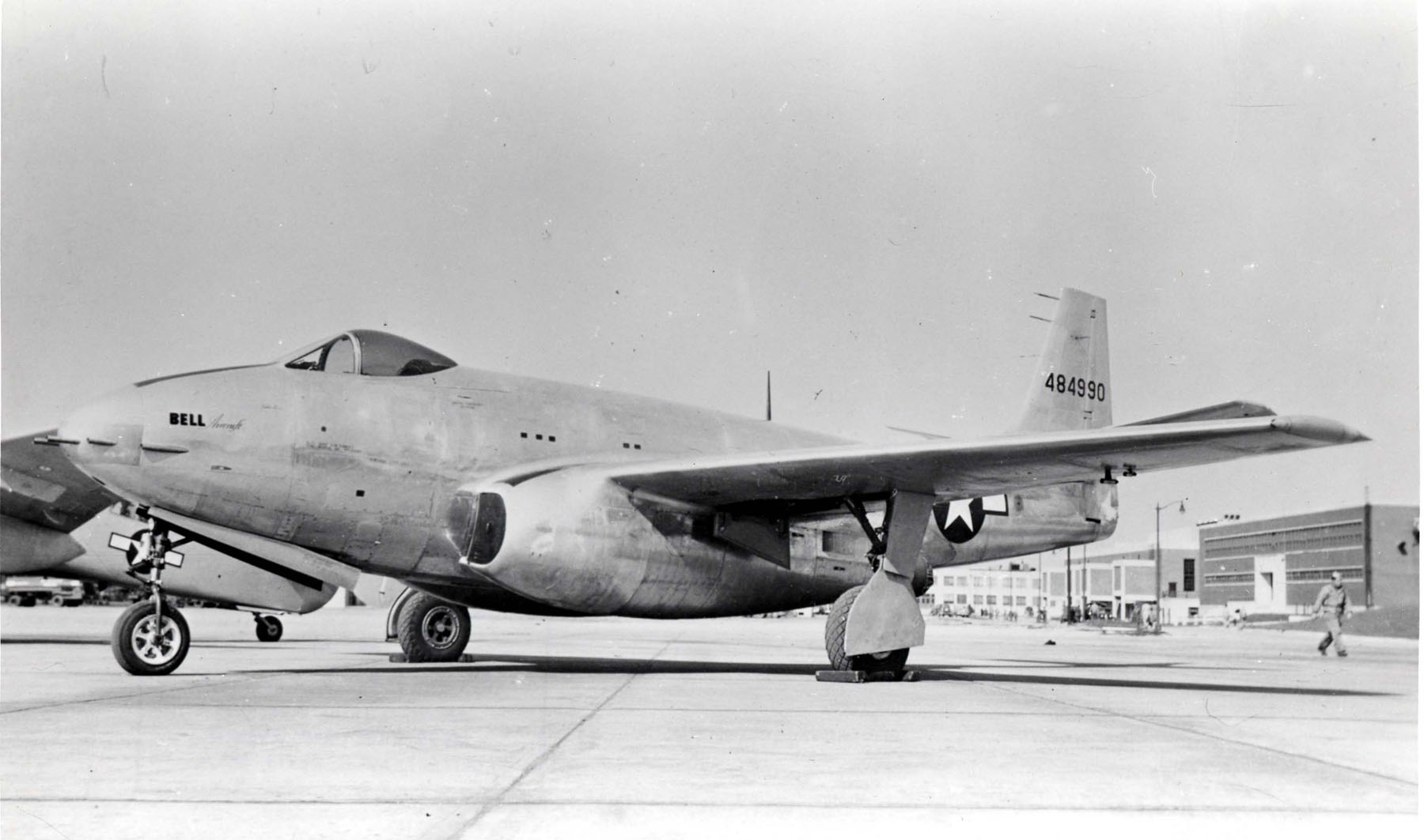 The first prototype (S/N 44-84990) of Bell XP-83, later XF-83.